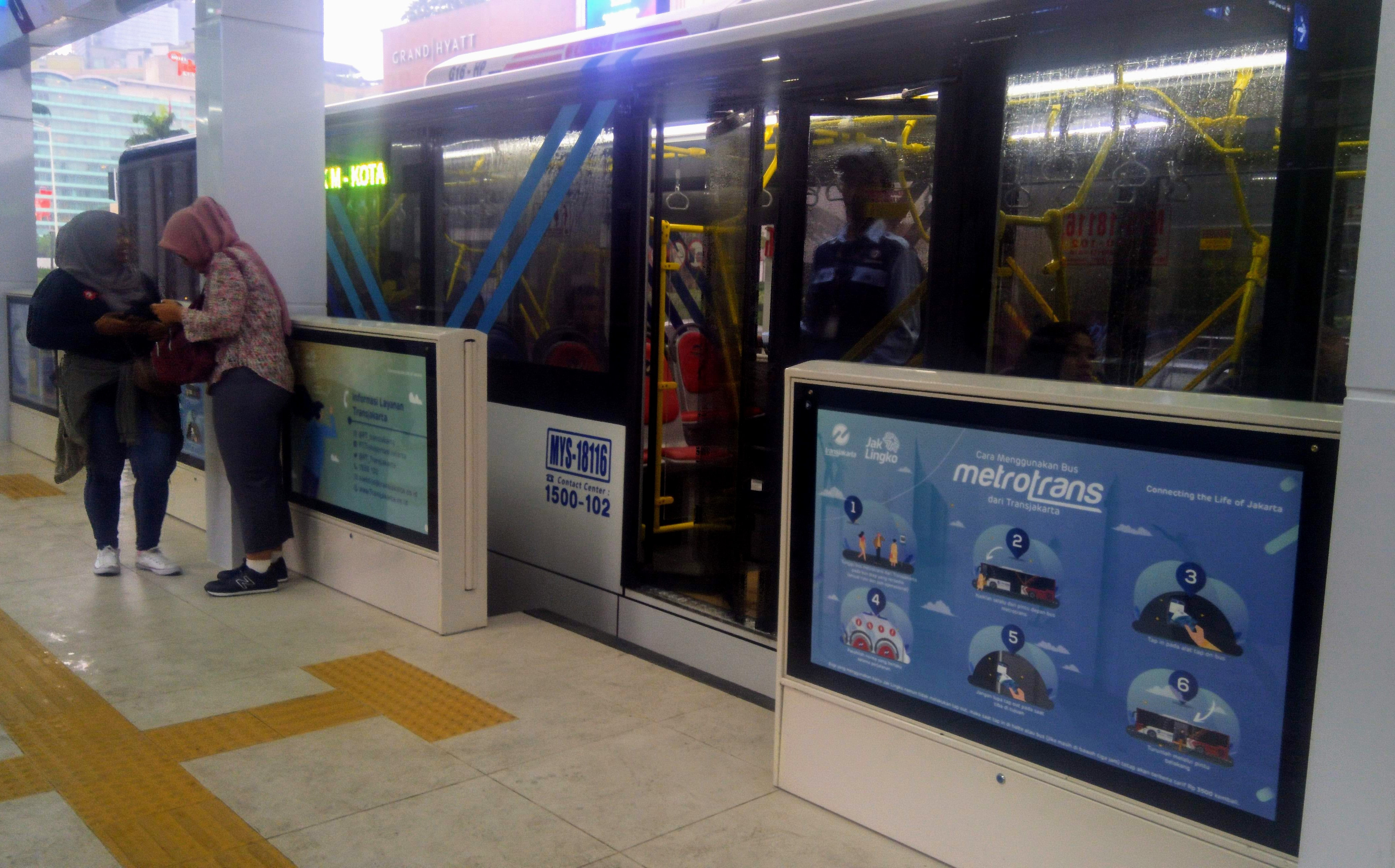 Half-height door at TransJakarta Bundaran HI Station